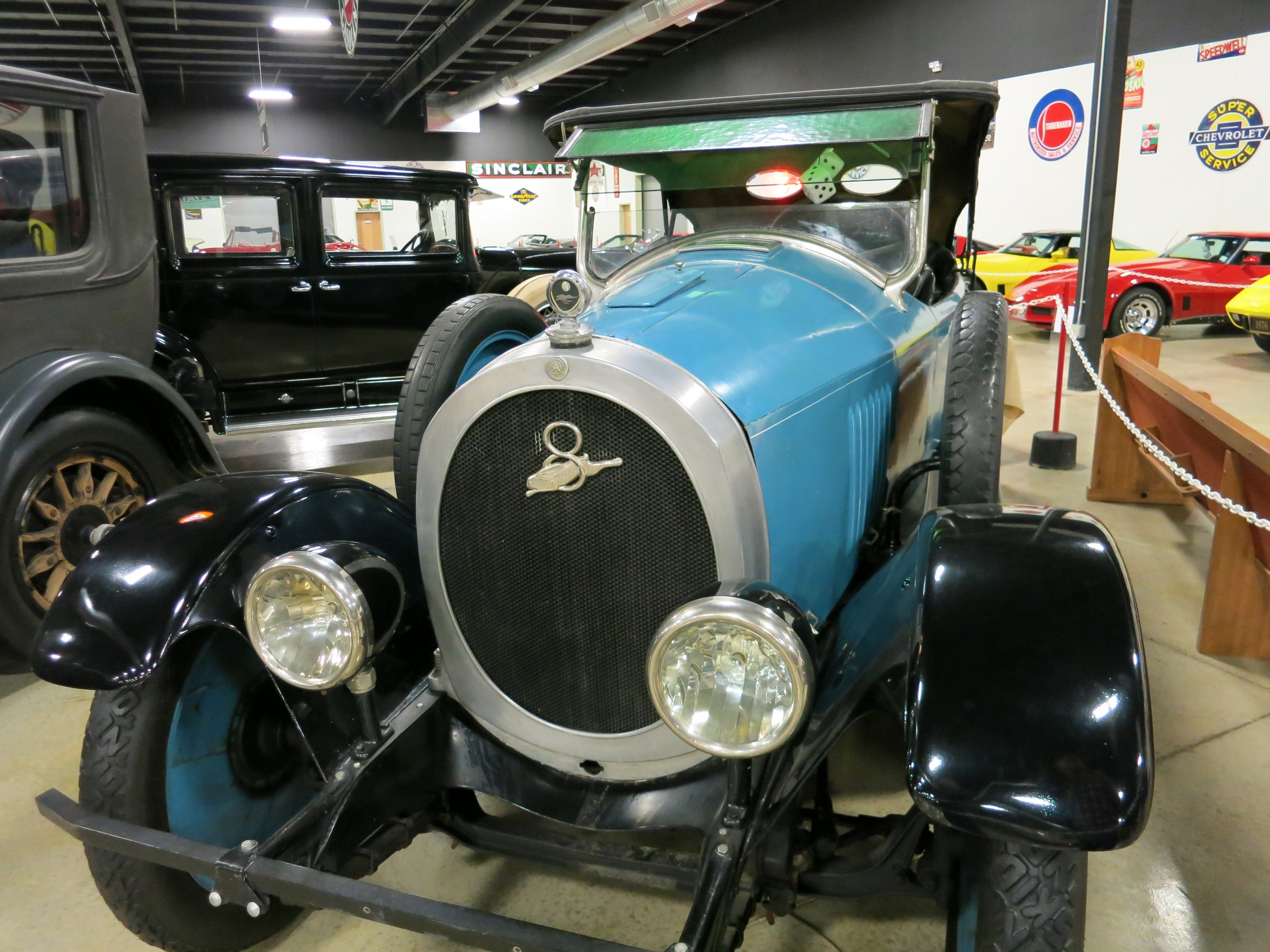 1920 Apperson Jack Rabbit V8 Tupelo Automobile Museum Tupelo, Mississippi